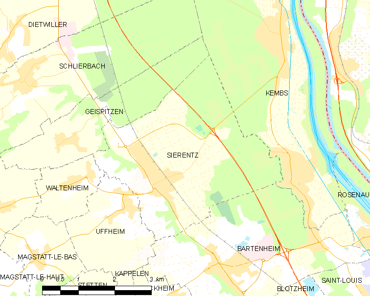 Map of French municipality